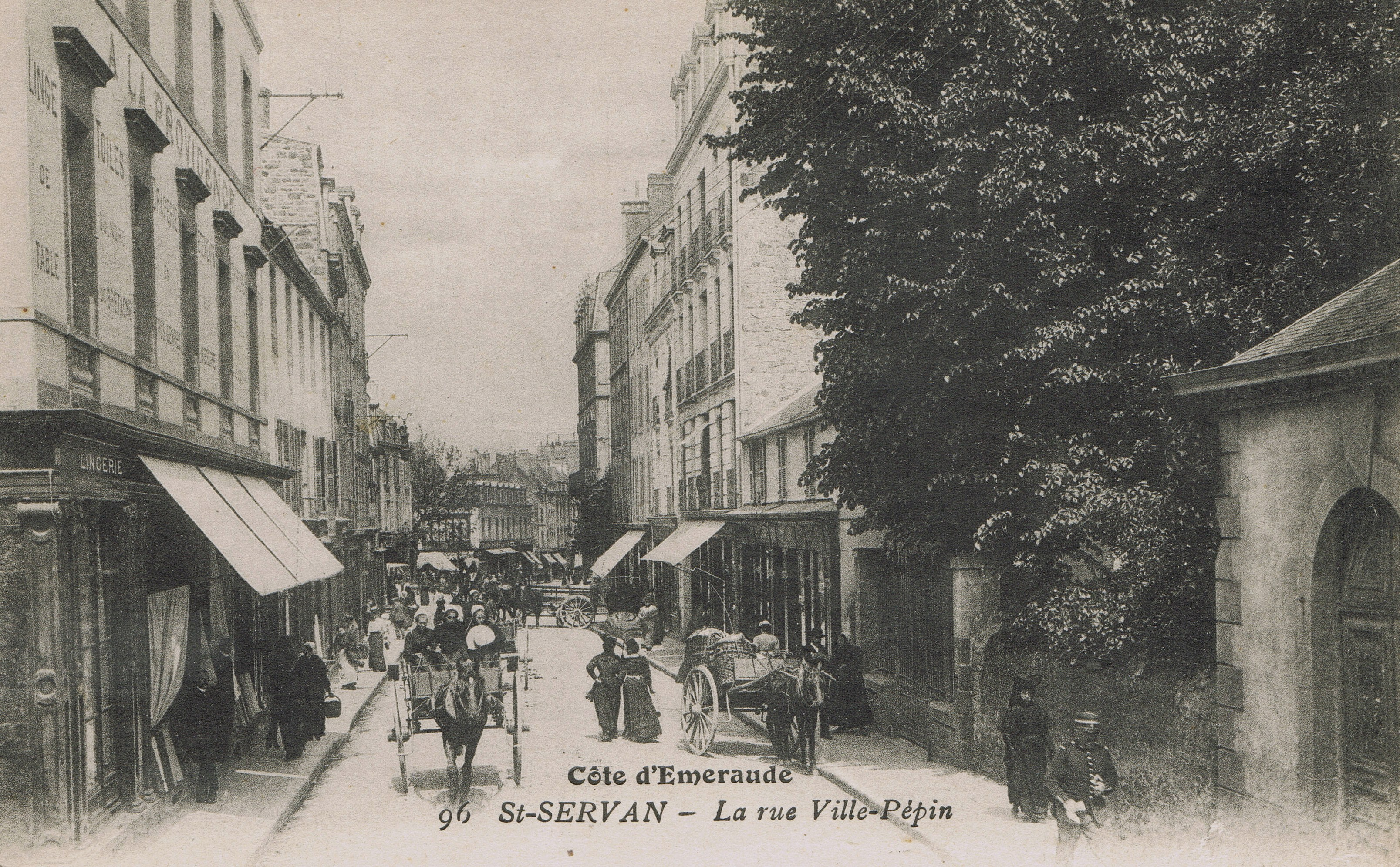 La rue Ville-Pépin à Saint-Servan-sur-Mer et le 18 de la rue, à gauche (aujourd'hui le 28), le négoce de tissu La Providence de Paul Miniac (1851-1936). Collection Miniac, Rennes, France.